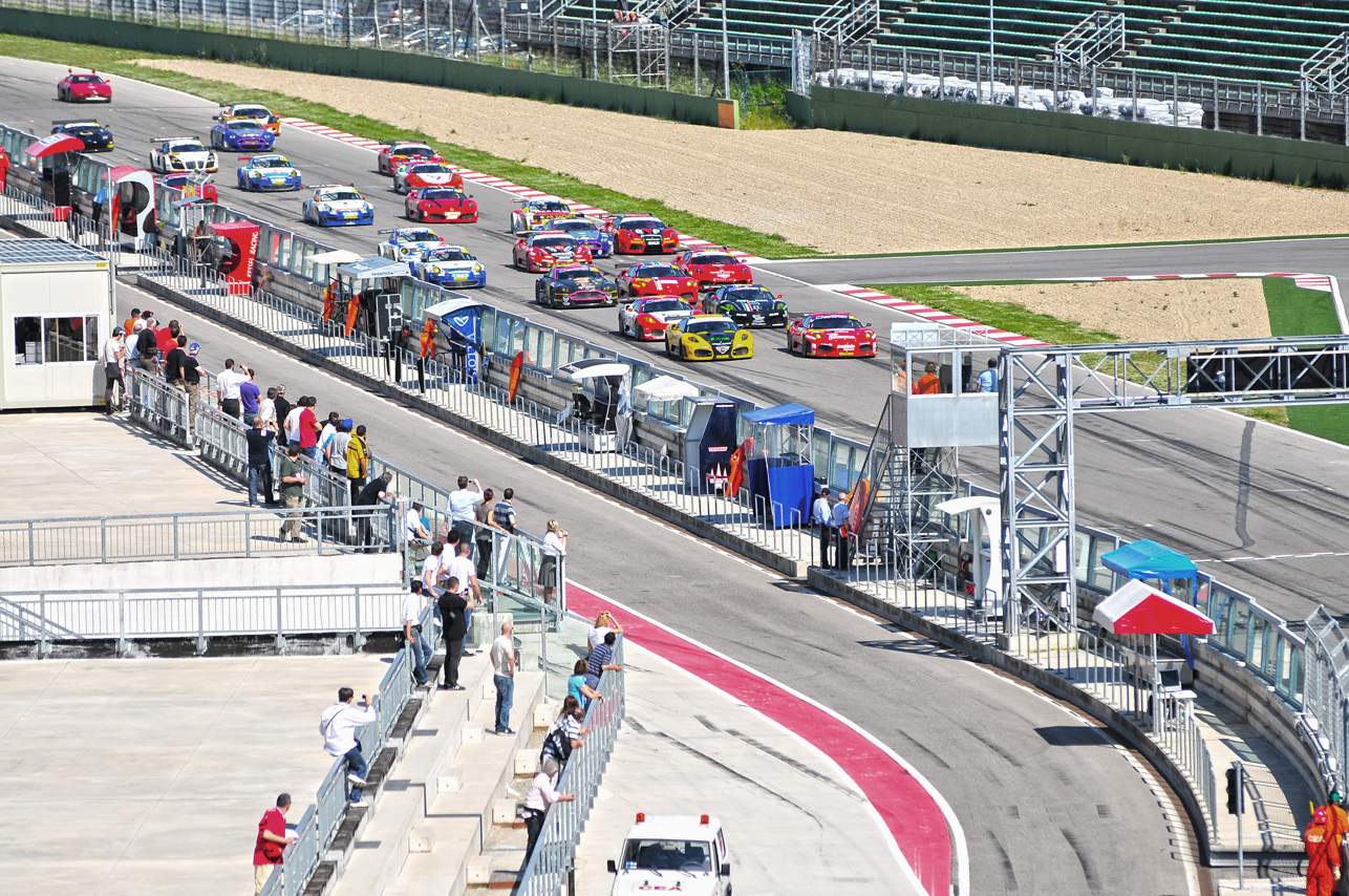 Imola GT Open start